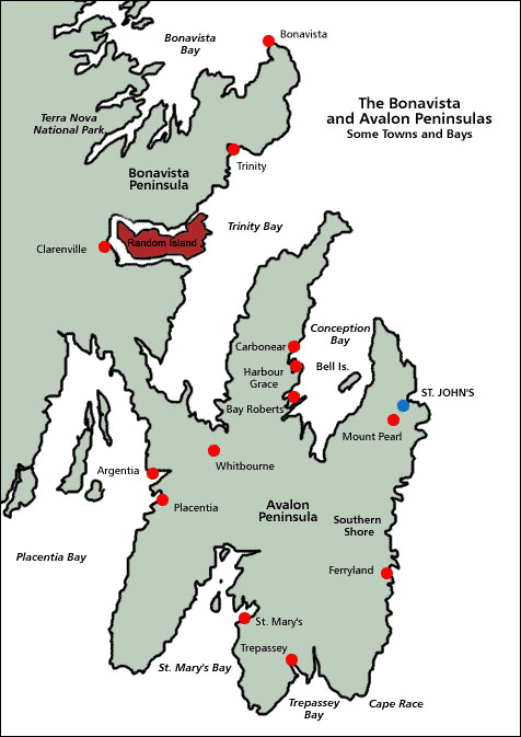 Modified from Image:Avalon_fullmap.gif, created by Jcmurphy.